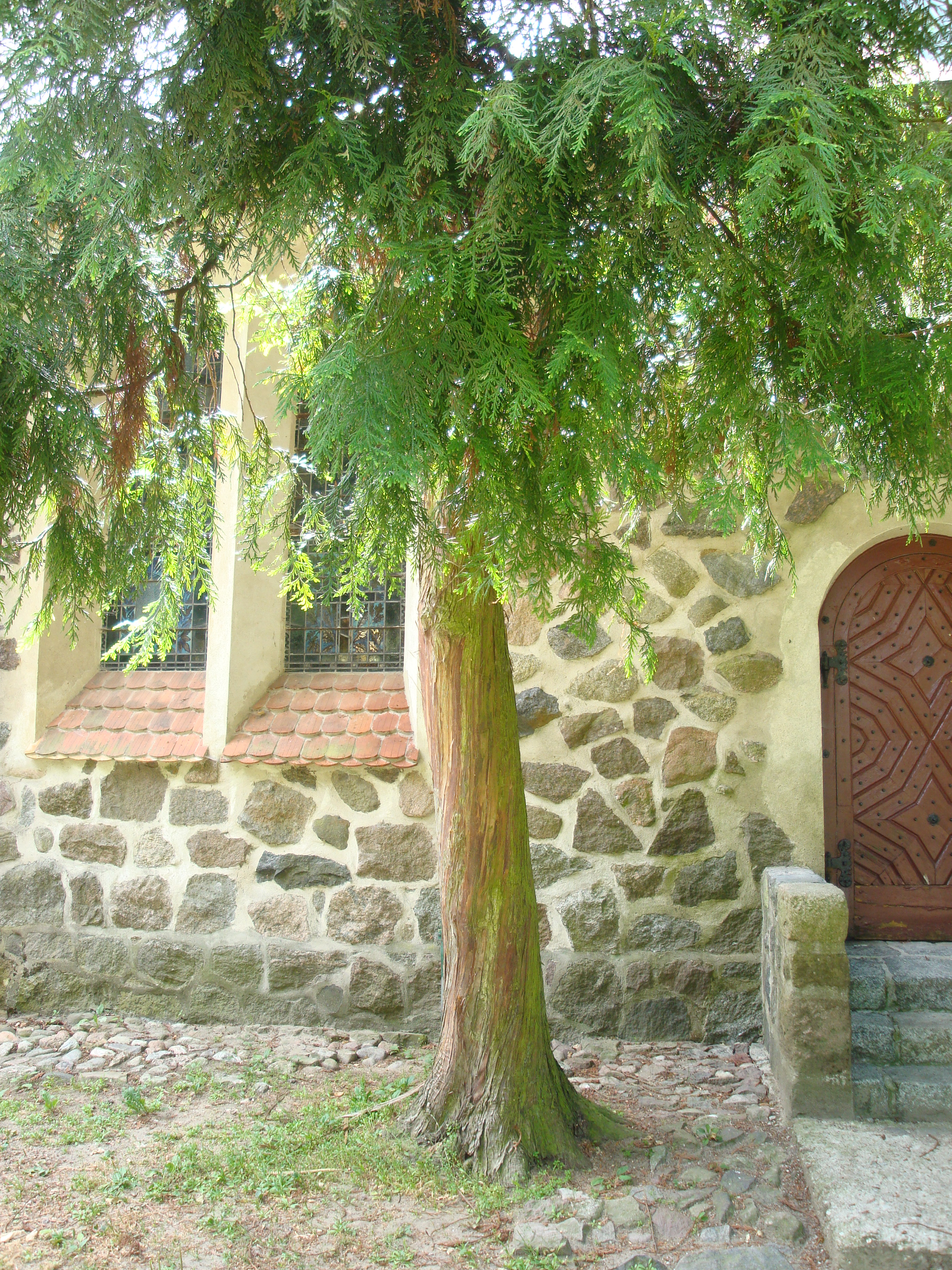 Chocielewko-village in Pomeranian Voivodeship, Poland. Thuja occidentalis near church